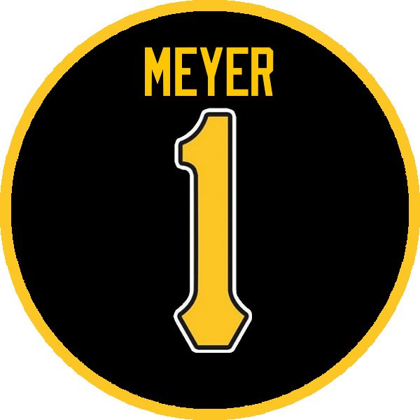 Illustration of Pittsburgh Pirates retired number